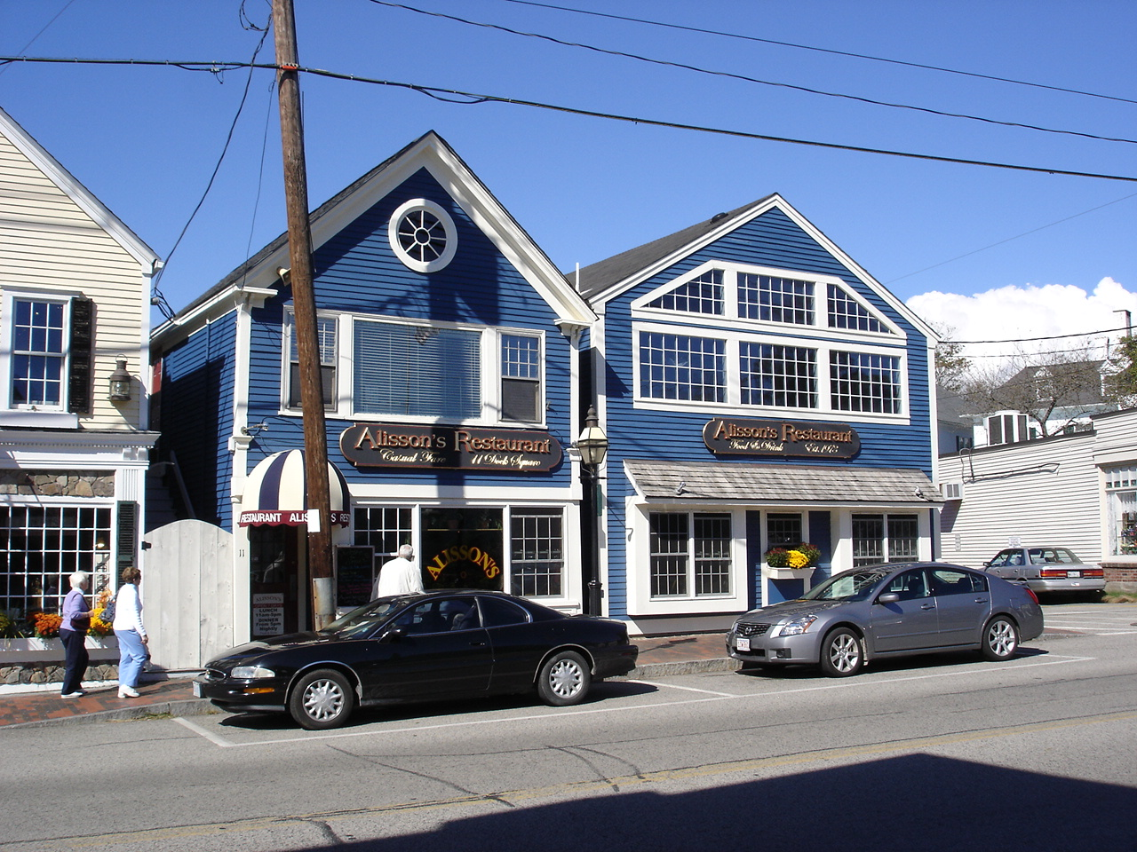 Alisson's began in November of 1973 when a local couple, Beatrice and Francis Condon, purchased the former Smith's Market and Chat & Chew Restaurant. The market was renamed Dock Square Market and a family contest was begun to rename the restaurant. B and Fran's oldest grandchild, Alisson, was often sung a rendition of Arlo Guthrie's classic "Alice's Restaurant" by her Uncle Scott and a unanimous family decision was made that our version, "Alisson's Restaurant", fit the new family business perfectly. Dock Square Market and Alisson's Restaurant became instant local favorites. Alisson's remained a small 35-seat establishment until 1984, when B and Fran's eldest son and daughter, Mike and Pam (mother of Alisson), bought the business. It was at that time that Dock Square Market was closed and Alisson's expanded into that building, adding a bar and dining room on the main floor, and a 50-seat dining room upstairs.